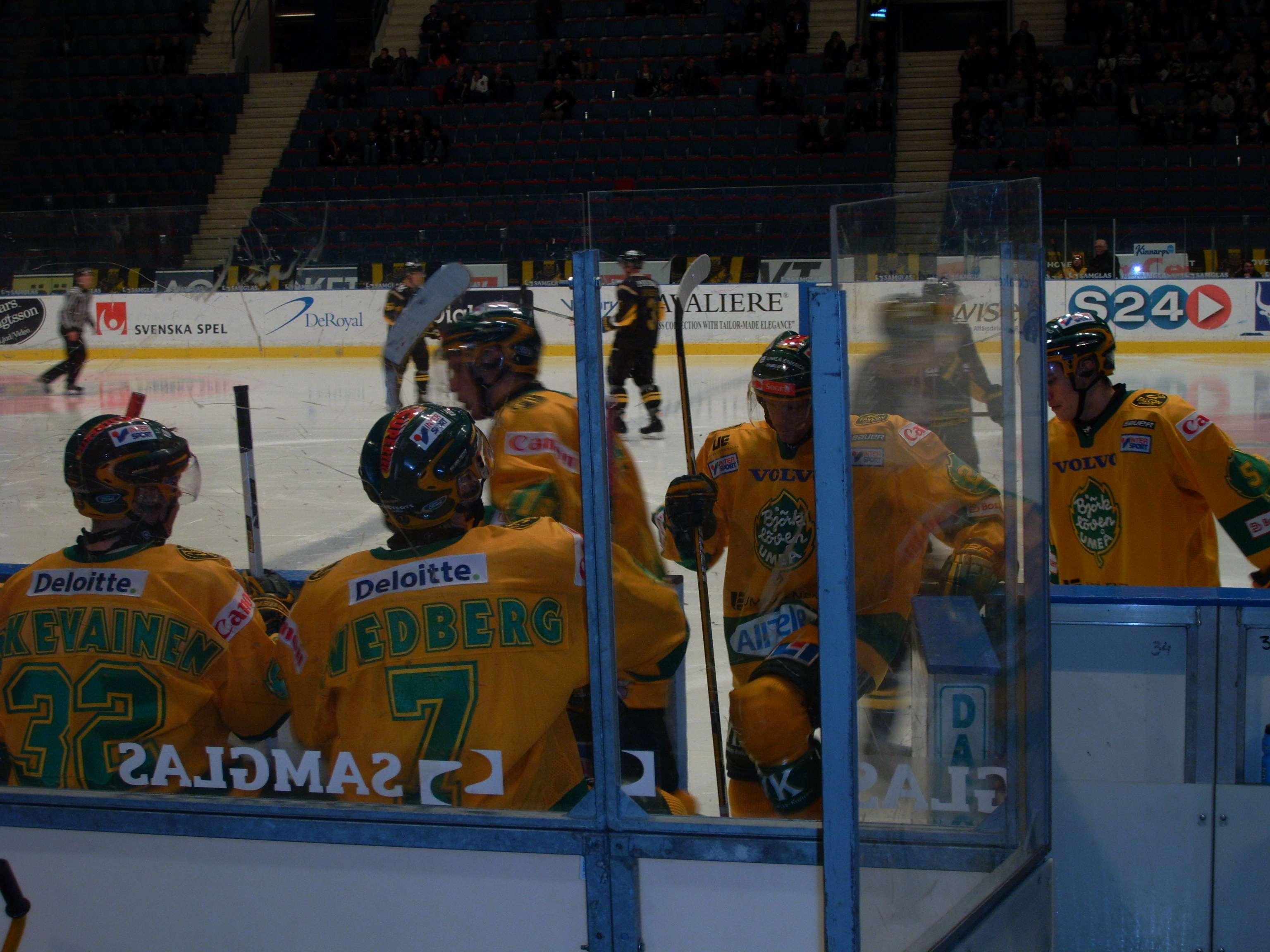 Ice hockey players from IF Björklöven.